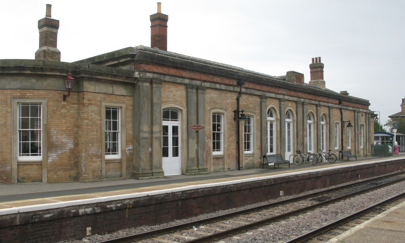 The main building at Newark Castle railway station is now mostly used by a café but a small section at the far end still serves as a railway ticket office. Platform 1 is used by trains towards Nottingham.